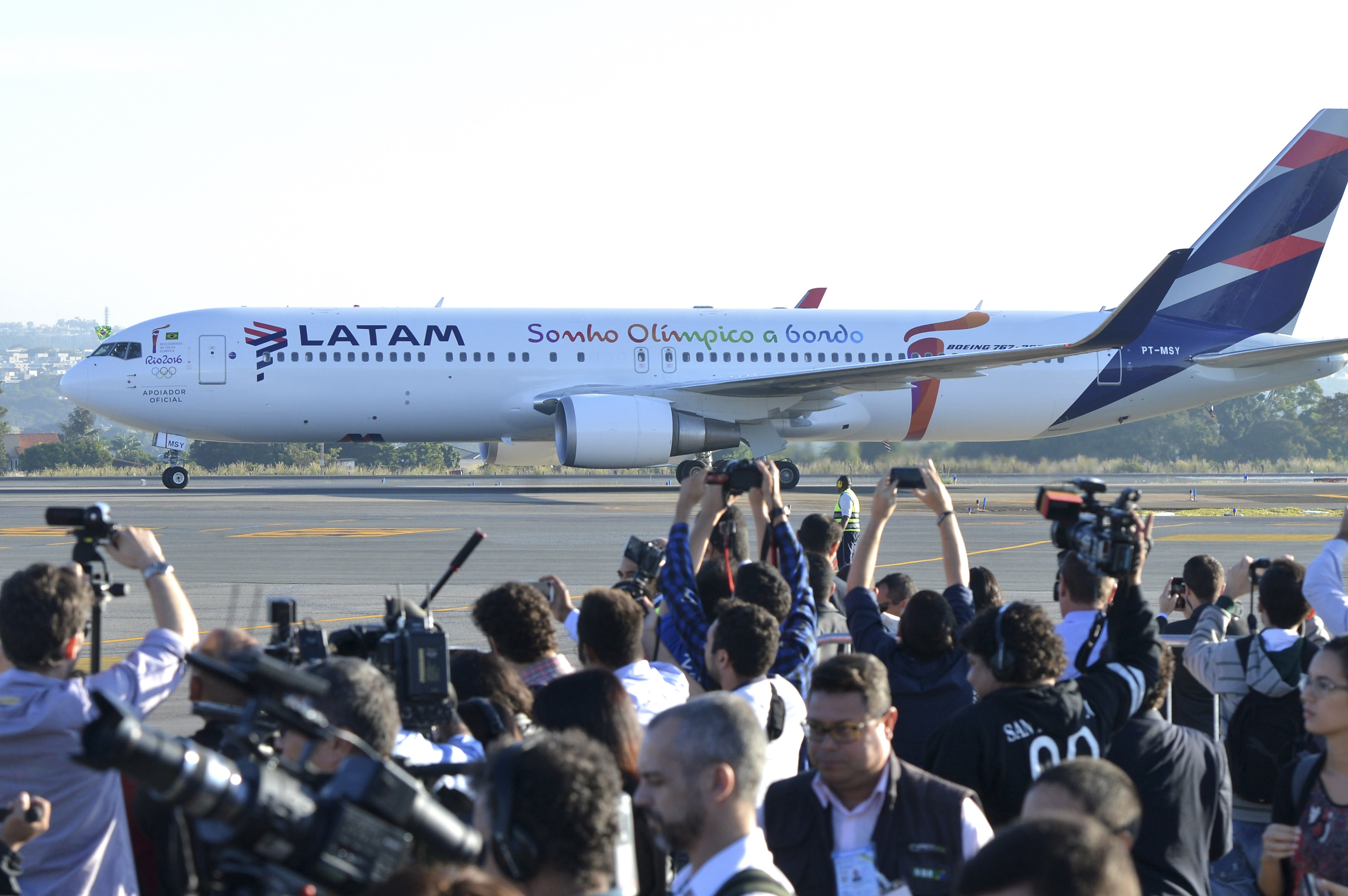 Brasília - Chega a Brasília o avião trazendo a lanterna que contém a Chama Olímpica (Antonio Cruz/Agência Brasil)